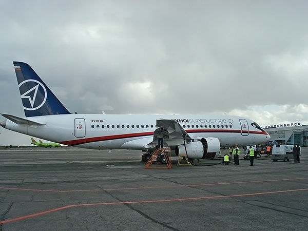 Sukhoi SuperJet 100 (SSJ-100) board #004 in Tolmachevo (Novosibirsk) airport